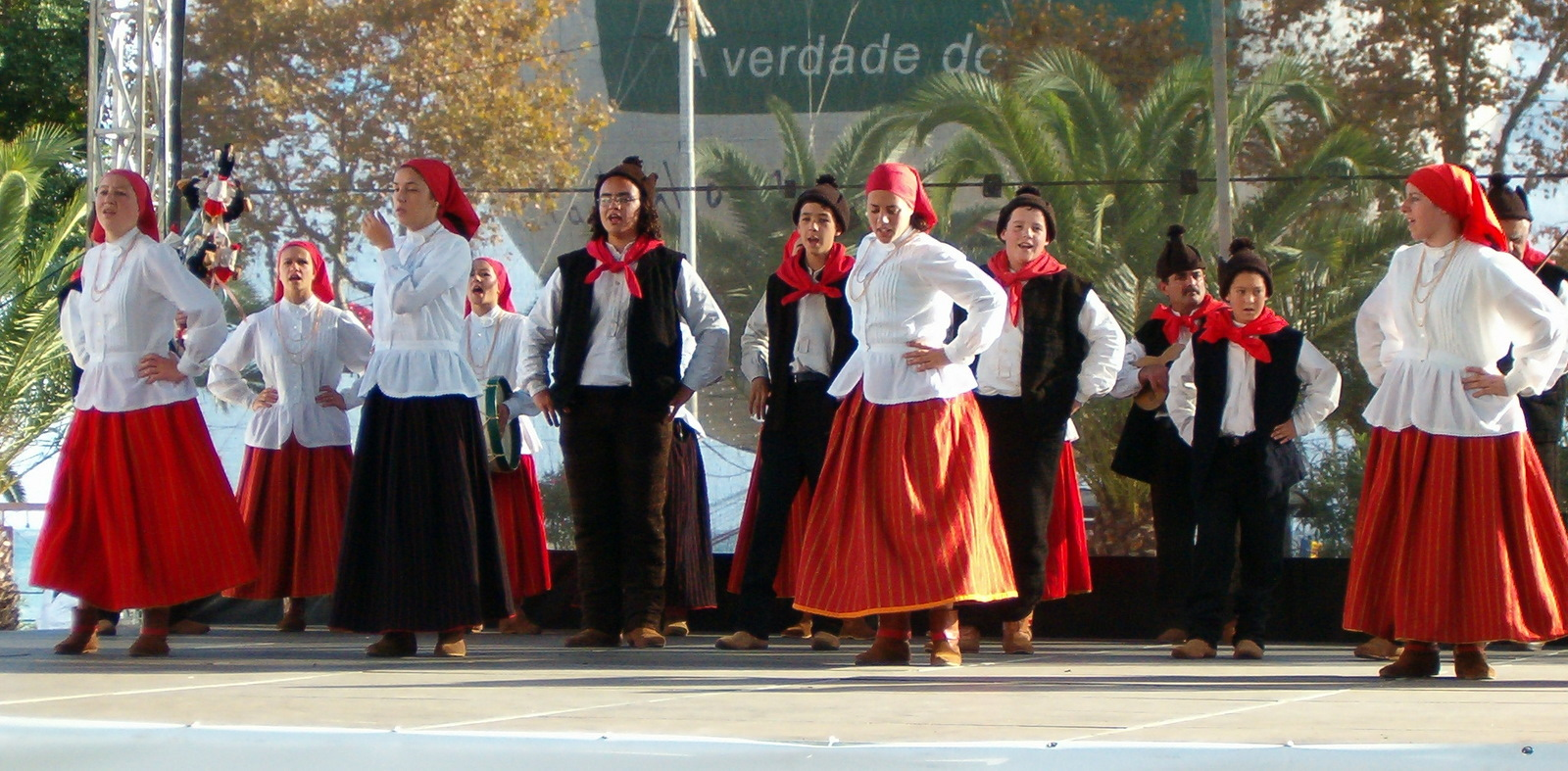 Folklore of Madeira, Folklor na ostrovi Madeiri